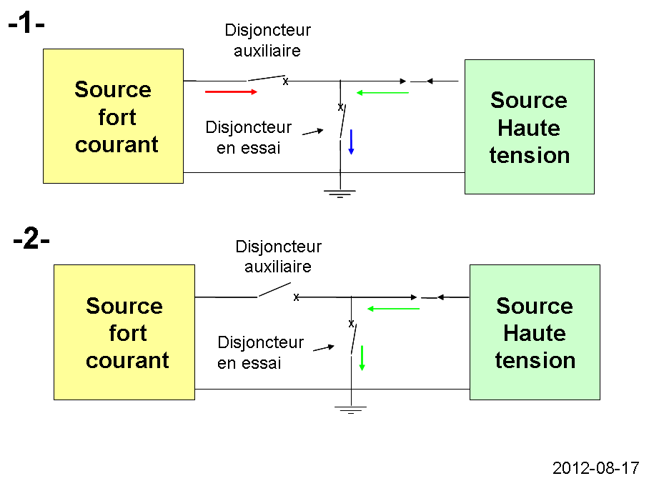 Principle of synthetic test for HV circuit breakers